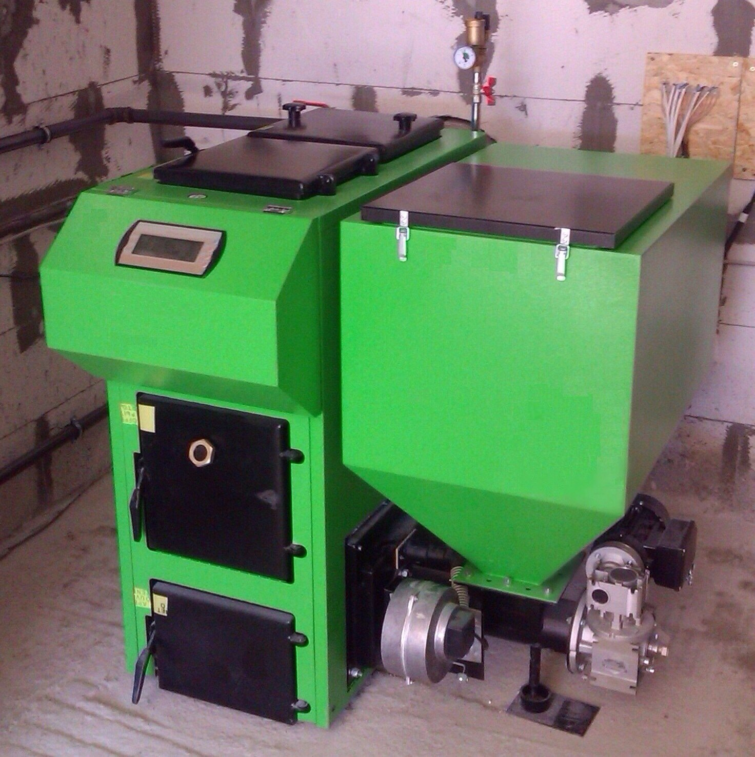 25 кВт пеллетный котел, леноблать